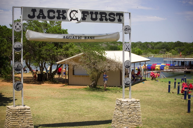 Portion of Camp Constantin Aquatics area